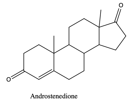 Structure of androstenedione